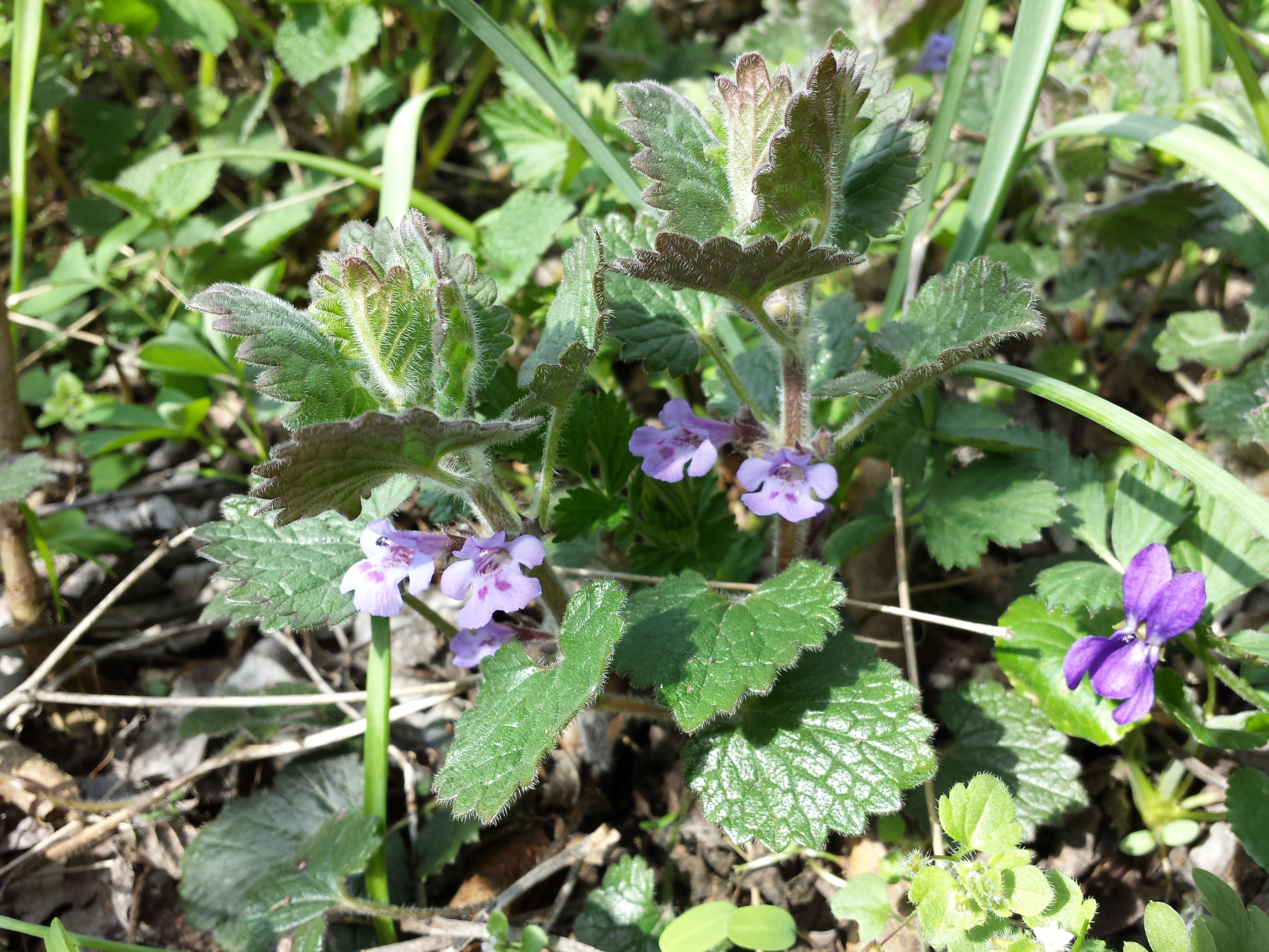 Habitus Taxonym: Glechoma hirsuta ss Fischer et al. EfÖLS 2008 ISBN 978-3-85474-187-9 Location: Hundsheimer Berg, district Bruck an der Leitha, Lower Austria - ca. 450 m a.s.l. Habitat: edge of the woods